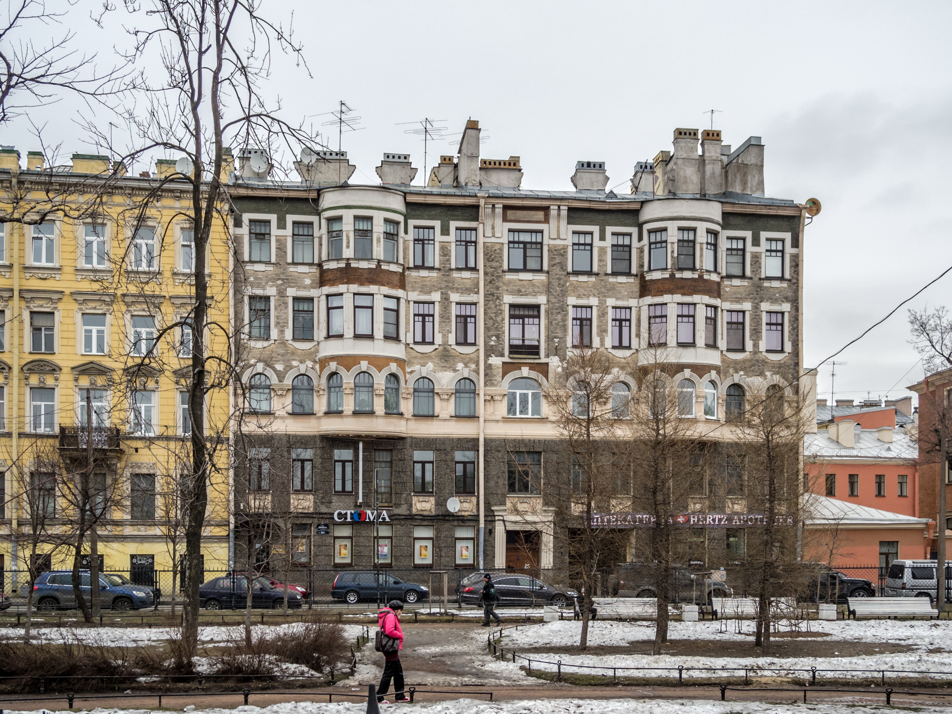 Saint Petersburg, 33, Blokhina street